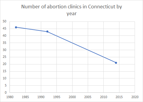 Number of abortion clinics in Connecticut by year. Created using data linked on .